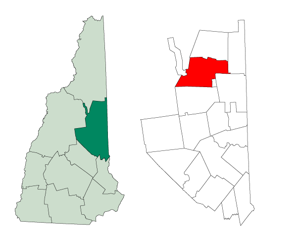 Created from Boundary/Border Outline Files of the Libre Map Project which held a BY-SA creative commons license. Data origionally from 2000 US Census boundary data.